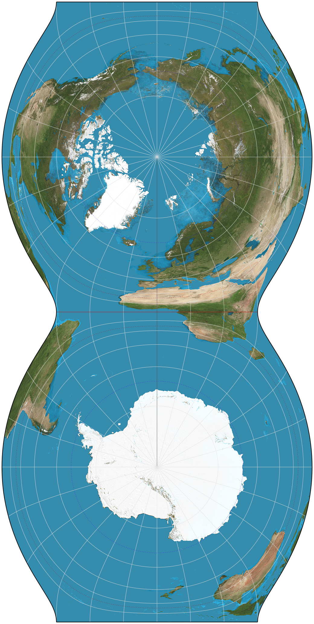 Cassini projection on the earth modeled as a highly oblated ellipsoid, flattening = 1:2; eccentricity = √3/2. 15° graticule. Imagery is a derivative of NASA’s Blue Marble summer month composite with oceans lightened to enhance legibility and contrast. Image created with the Geocart map projection software.